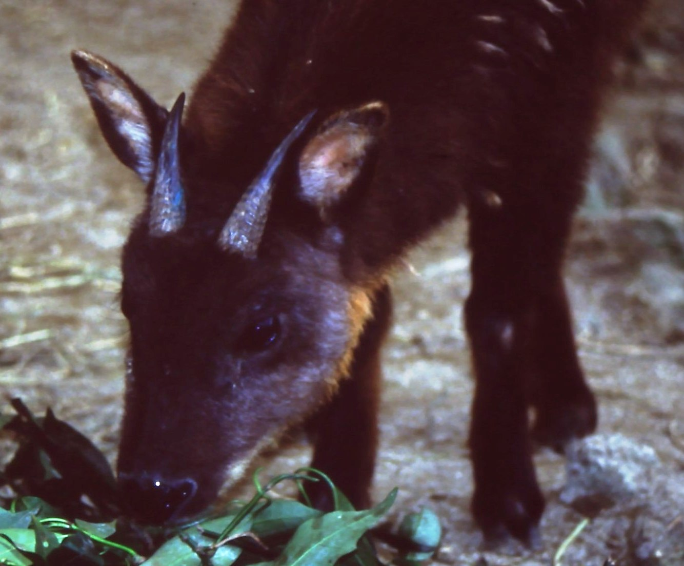 Capricornis swinhoei in Japan Capricornis crispus zoo, Mount Gozaisho